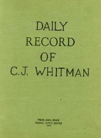 Journal of Charles Whitman.